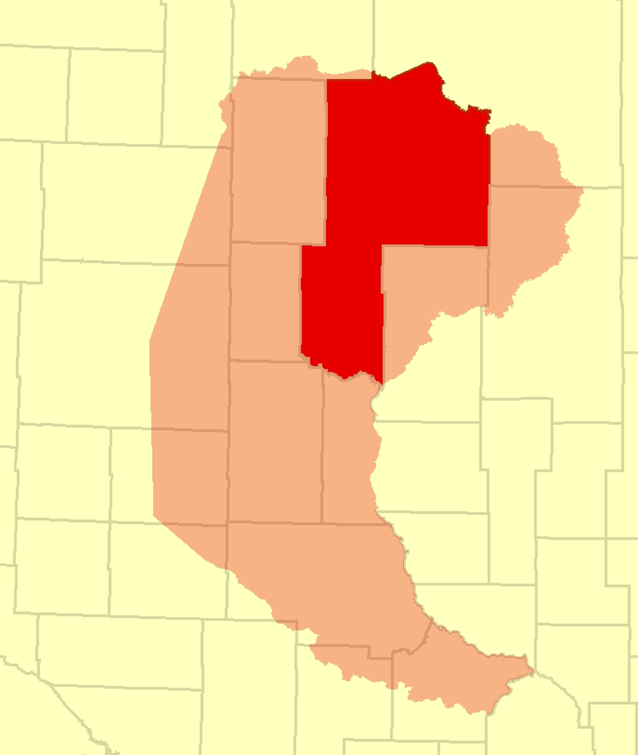 Current Cass County, Minnesota, highlighted in red, with a pink overlay of the historical Cass County of 1851.